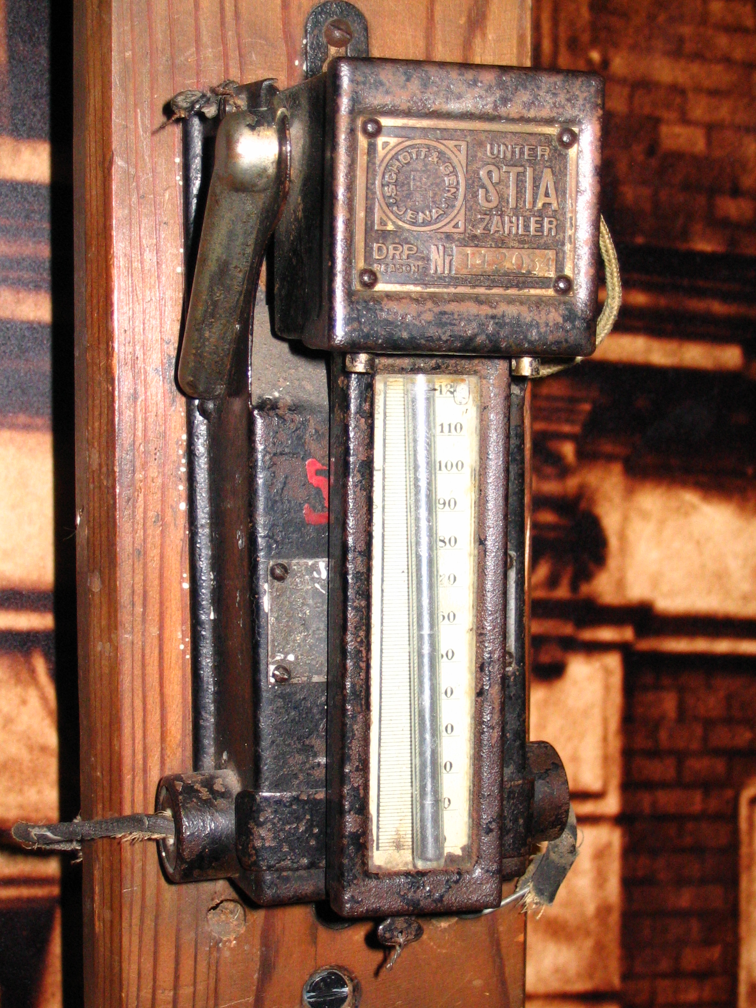 mercury electricity meter